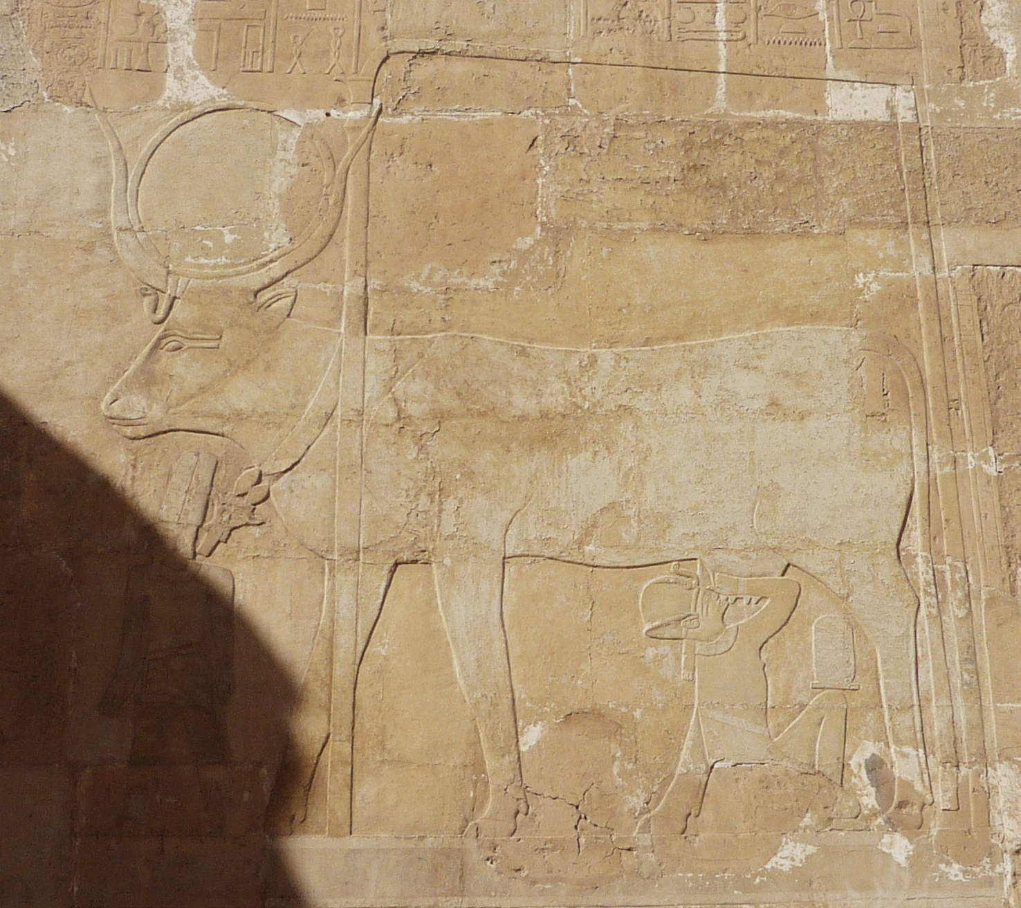 Breast-feeding of Hatshepsut by Hathor, Hatshepsut temple, Deir el-Bahari, Theban Necropolis, Egypt